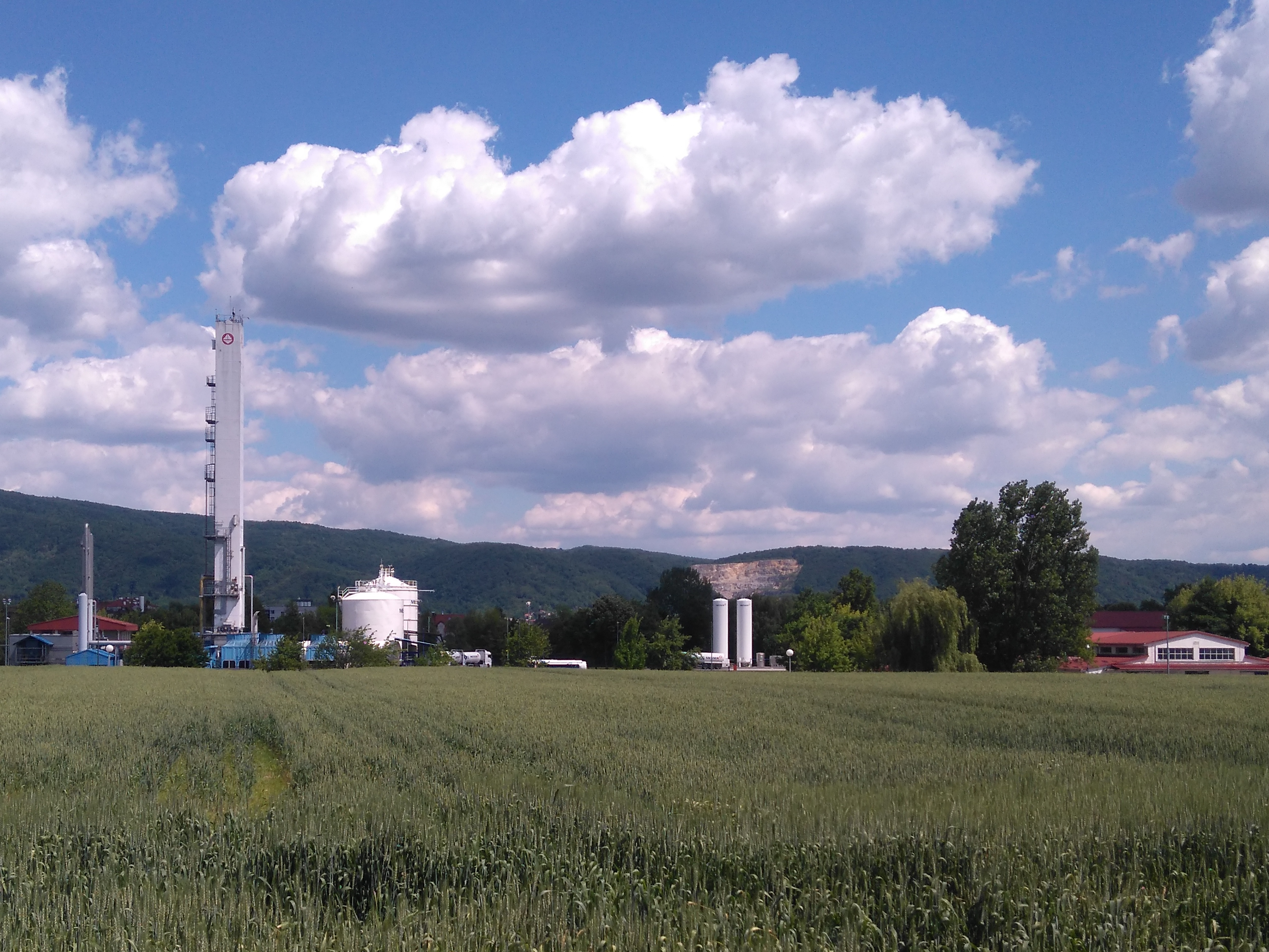 Kisikana